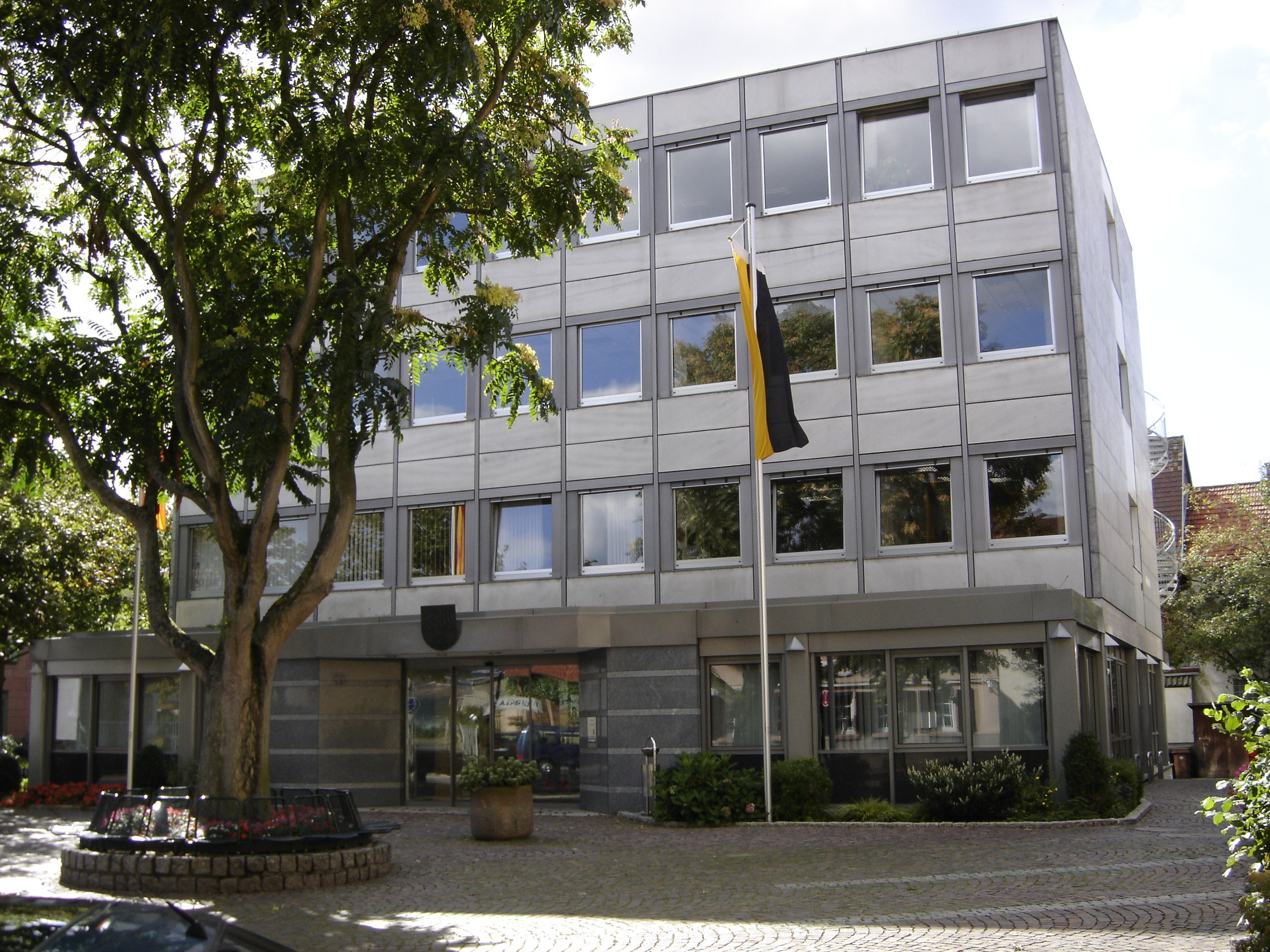 New town hall, Heddesheim, Germany